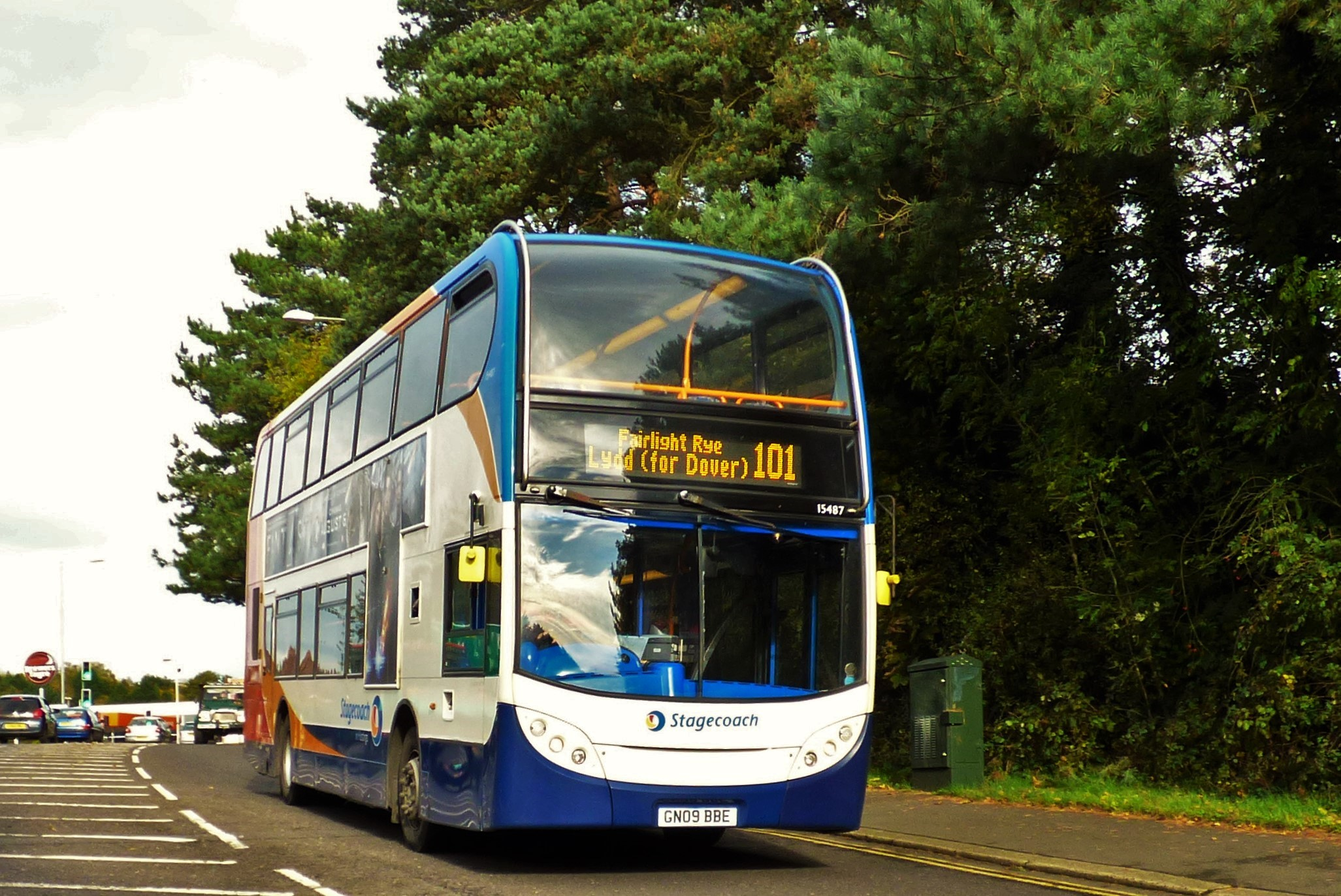 Near New Romney.